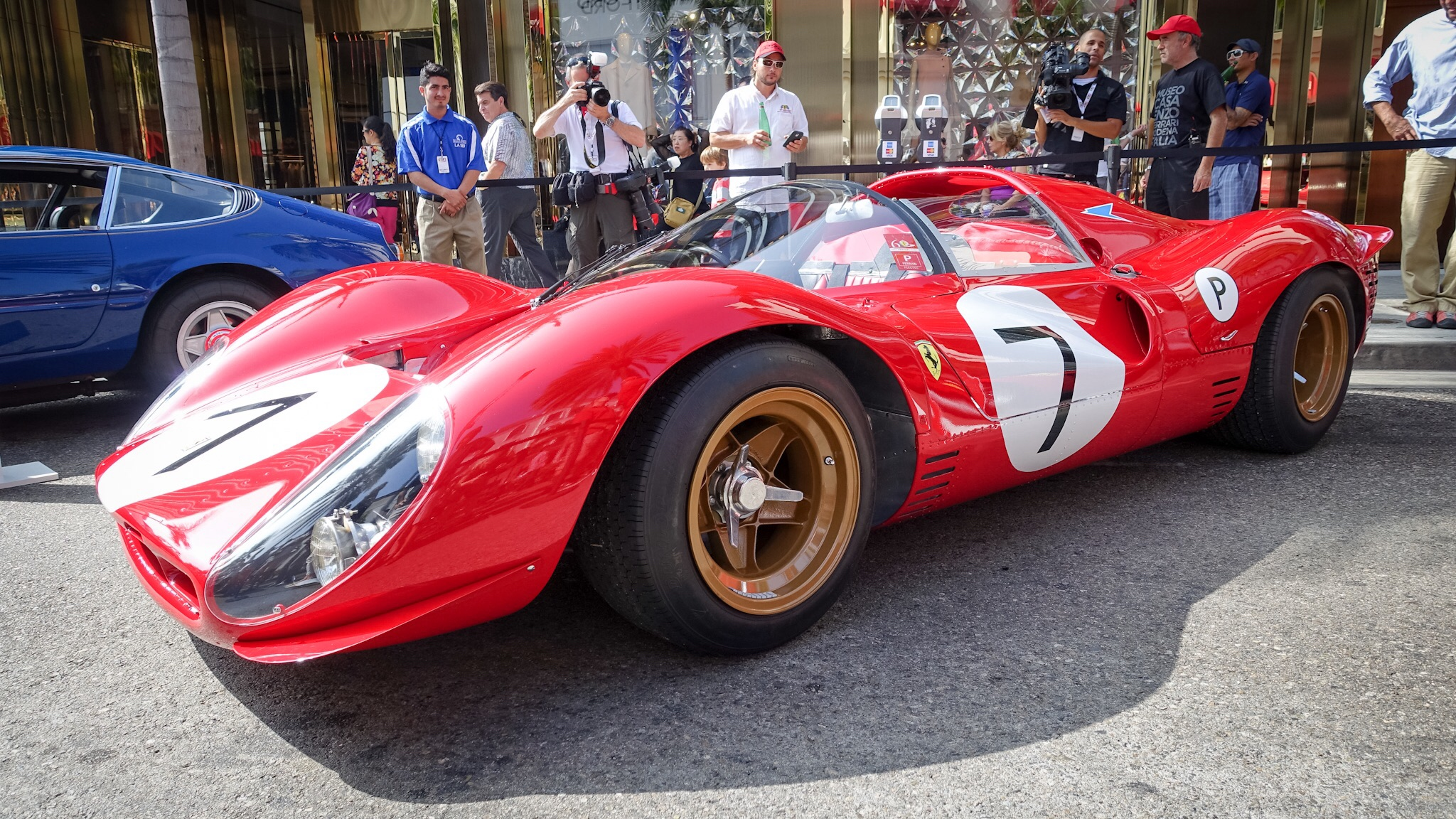 The Ferrari 330 P4 was the ultimate four-liter Ferrari prototype in the 1960s, and still considered by many as the most beautiful Ferrari racer ever. This P4 finished second at the 24 hours of Daytona in 1967, part of the side-by-side 1-2-3 finish. It later finished second at the 24 Hours of LeMans and won the 1000 Kms. of Monza. Two of the three 330 P4s were converted to light-weight Spyders with larger engines, making this the only original 330 P4 remaining.